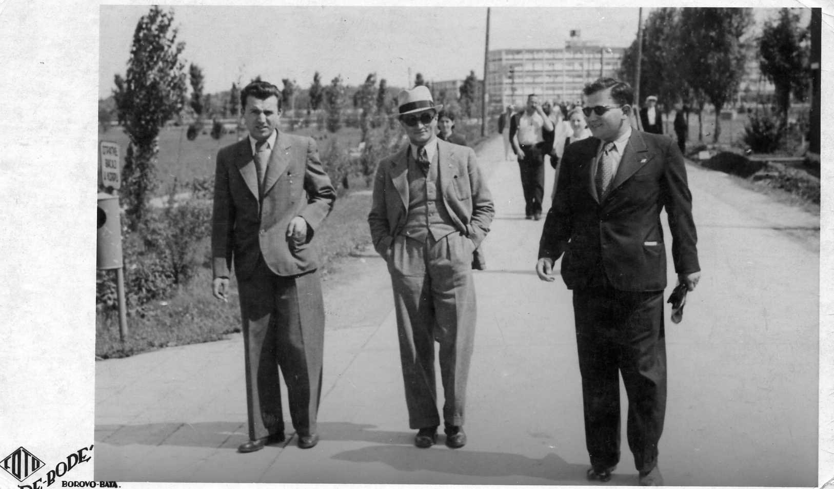 Some wonerful suits here, taken on the approach to the Bata factory in Yugoslavia, now Croatia, of Borovo - Vukovar. Fierce fighing in the early 90s badly damaged much of what was left here, which originally had been another Bata satellite town, built according to the standards set in Zlin. In the background, the unmistakeble Bata factory built on the 6.15m square unit system build, just as one might find at Ottmuth, Silesia or East Tilbury UK Photographed by a local photographer who probably had a shop in the hotel/community centre in Borovo which opened in 1936. Foto De Bode and had a nice steady income doing local work for Bata and its employees . Work started here in 1931 - 7th June according to this well illustrated source in english , but detelopment continued over the next few years to produce the familiar Bata town, employing architects like Gahura, Karfík and Antonín Vítek, the latter also designing villas in Zlín with Miroslav Lorenc and others.. Vitek had already designed the Bata towns of Ottmuth (German Silesia) and Best (netherlands) whilst Karfik had taken East Tilbury under his belt, as documented here